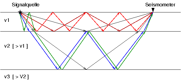 Sketch of a two-layer seismic medium displaying various possible path ways of seismic wave illustrating multiples (coloured).